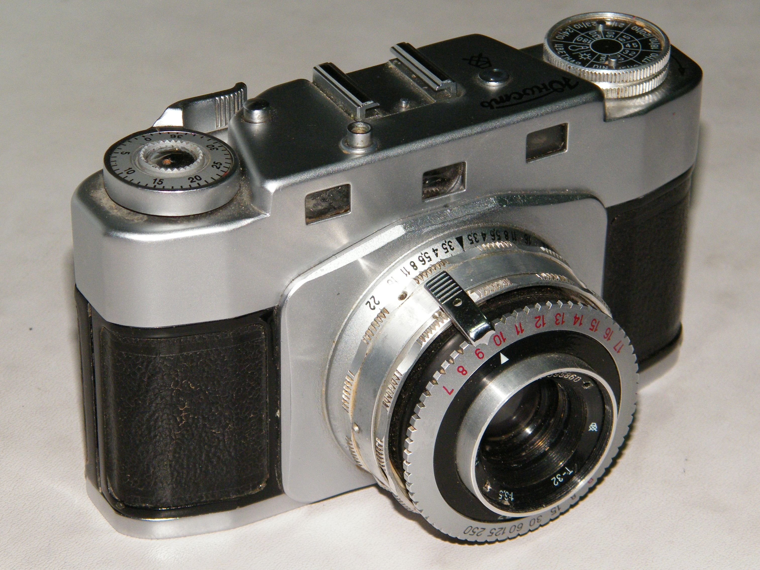 YUNOST LOMO camera from Evgeniy Okolov collection 1